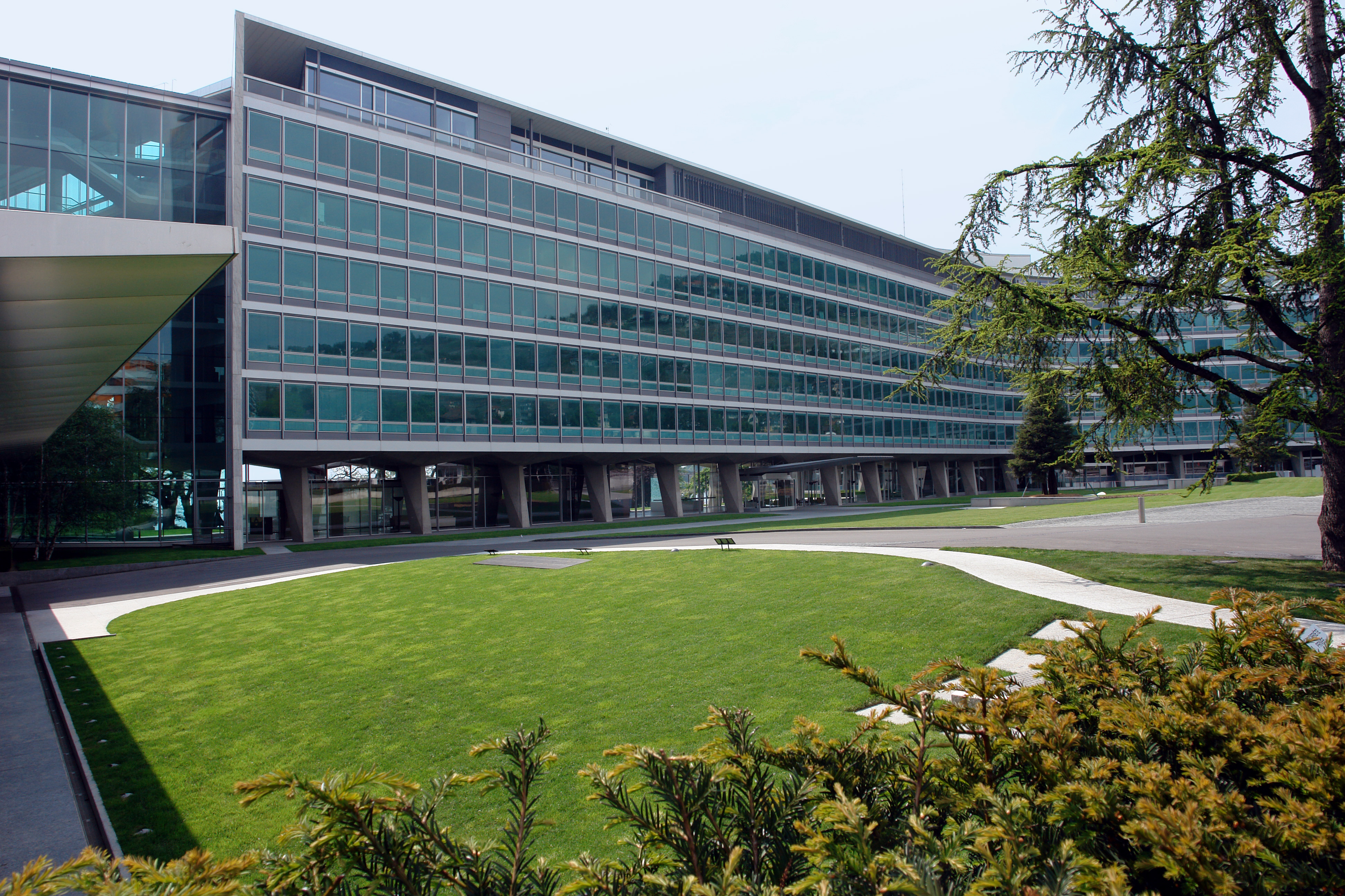 Nestlé Headquarters in Switzerland, Architect: Jean Tschumi, Year: 1957-60, Main Facade and Entrance